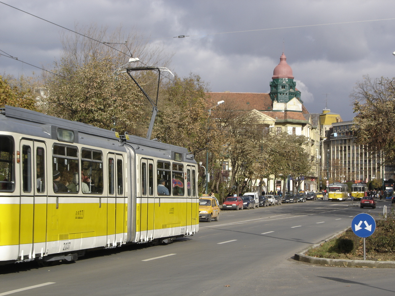 GT4 type trams on King Carol I Street, Timisoara.